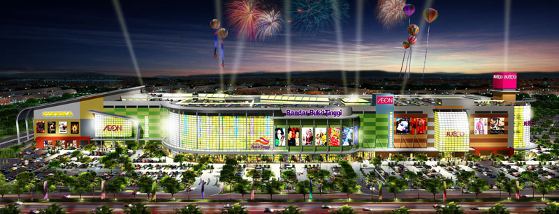 Southeast Asia's largest Jusco store, the ÆON Bukit Tinggi Shopping Centre in Bandar Bukit Tinggi, Klang, Malaysia.